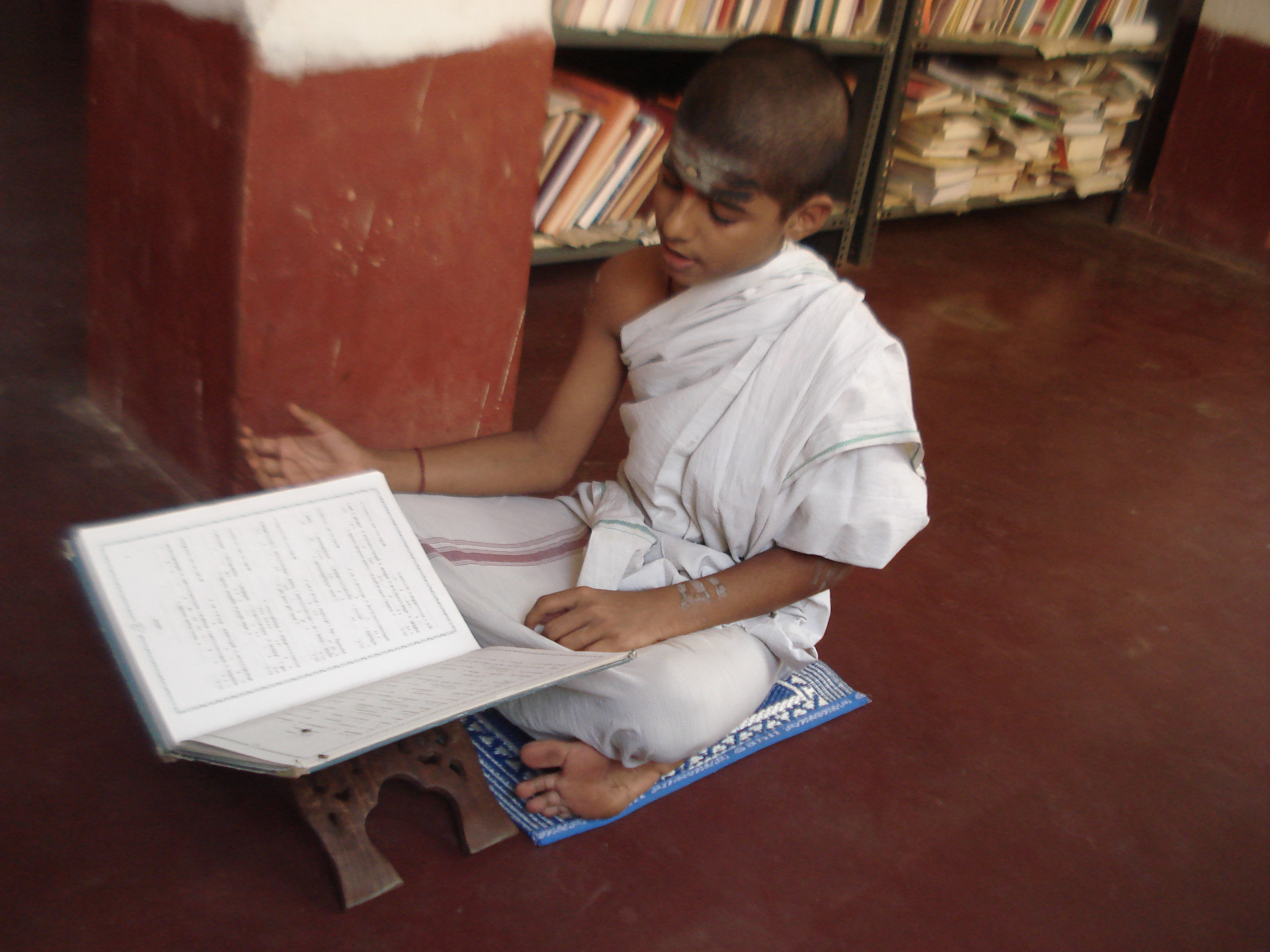 Student learning Veda. Location: Nachiyar Kovil, Kumbakonam, Tamilnadu.